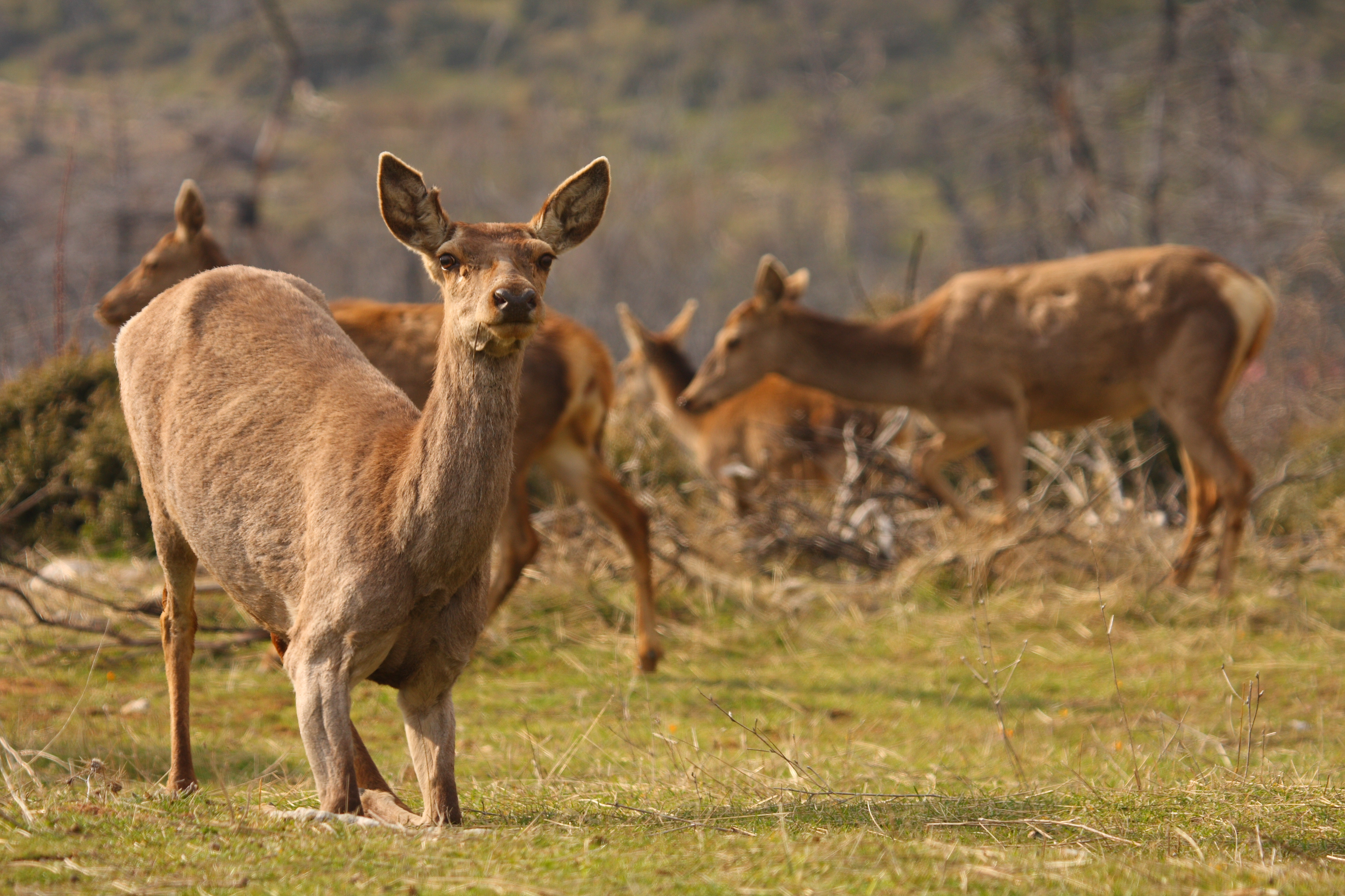 Red Deer - Cervus elaphus at Parnitha